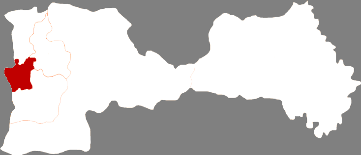 Location of Pingshan district in Benxi City, China